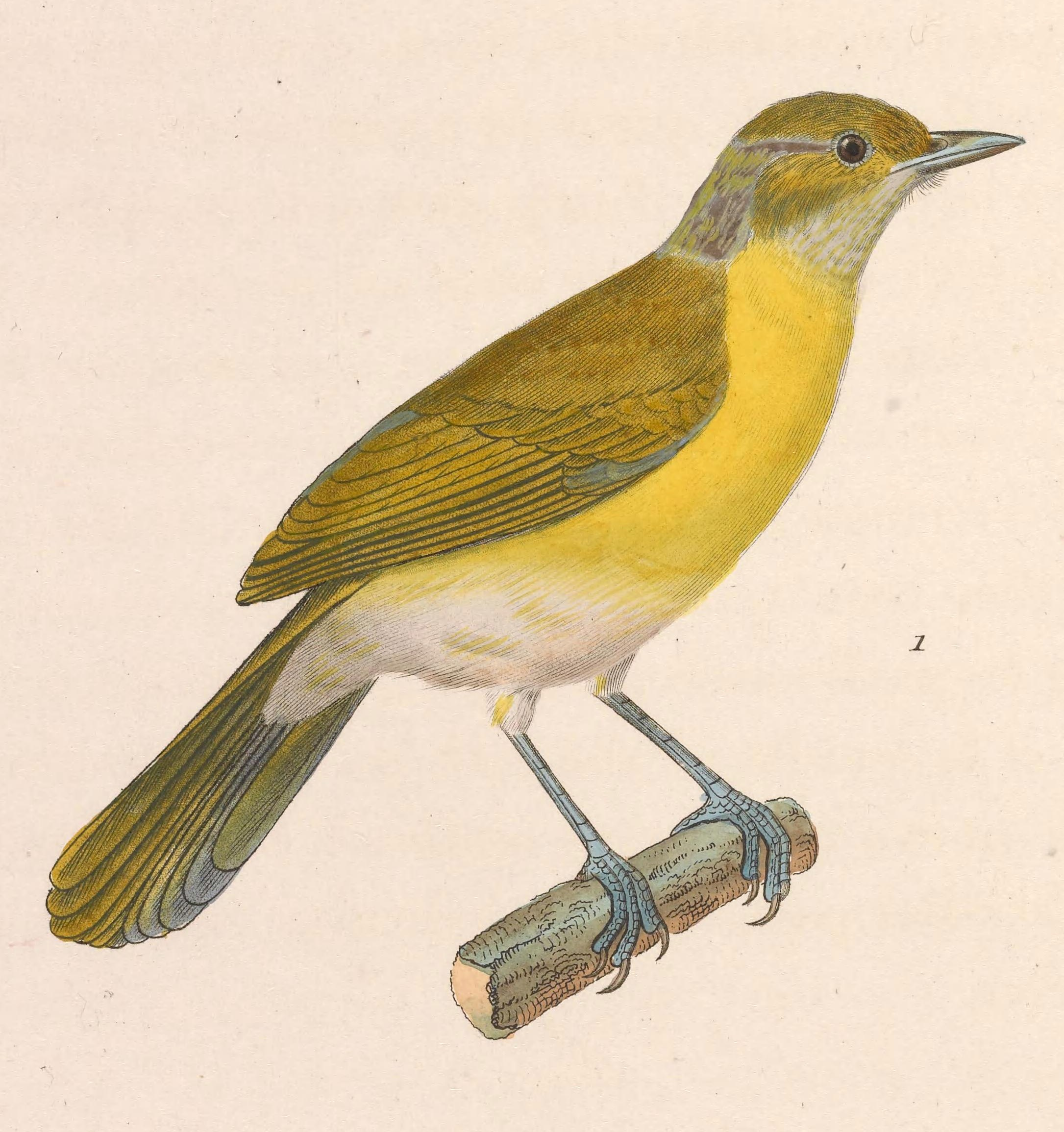 « Hylophilus thoracicus » = Hylophilus thoracicus (Lemon-chested Greenlet) - male